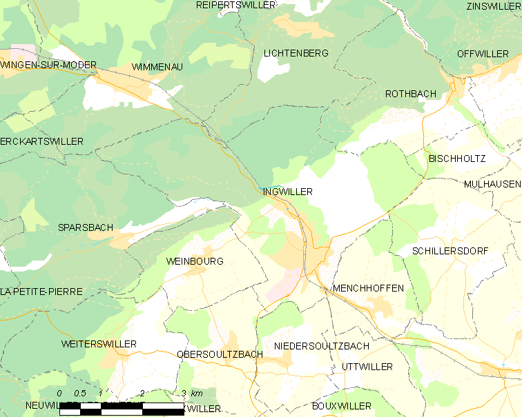 Map of French municipality